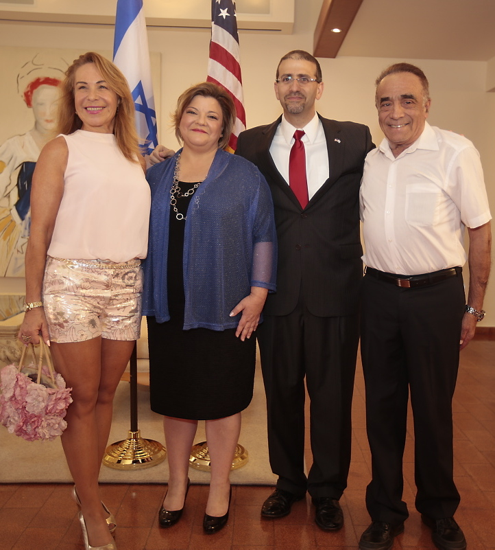 July 4th 2015